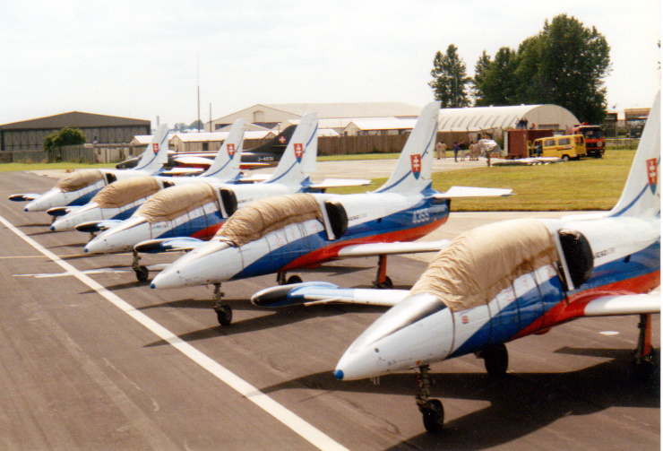 Photographed at RIAT 1993, RAF Fairford. Scanned print. Photo ref; 93/010/35